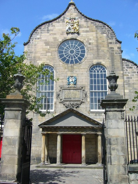 Canongate Kirk The main church of the Canongate, erected in 1691 after James VII claimed Holyrood Abbey Church for his own use, leaving the burghers to find an alternative place of worship. Its graveyard contains the graves of the economist Adam Smith, the poet Robert Fergusson, Lord Provost George Drummond (who conceived the 18th-century New Town) and Robert Burns' 'Clarinda'.